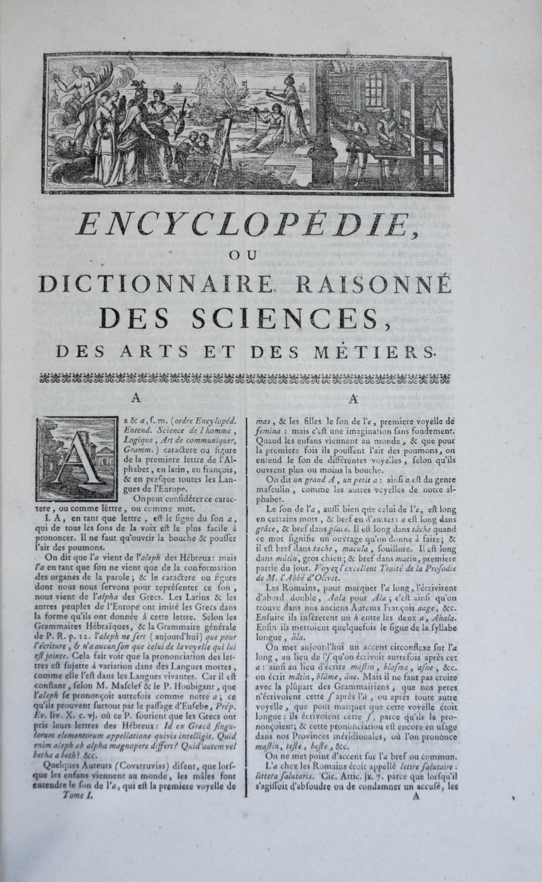 Page A